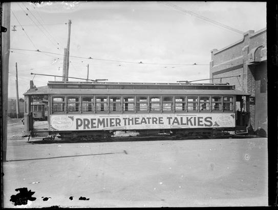 Perth Tram at the East Perth car barn, with advertisement for the Premier Theatre, the first suburban cinema opening with talkies on 30 September 1929.